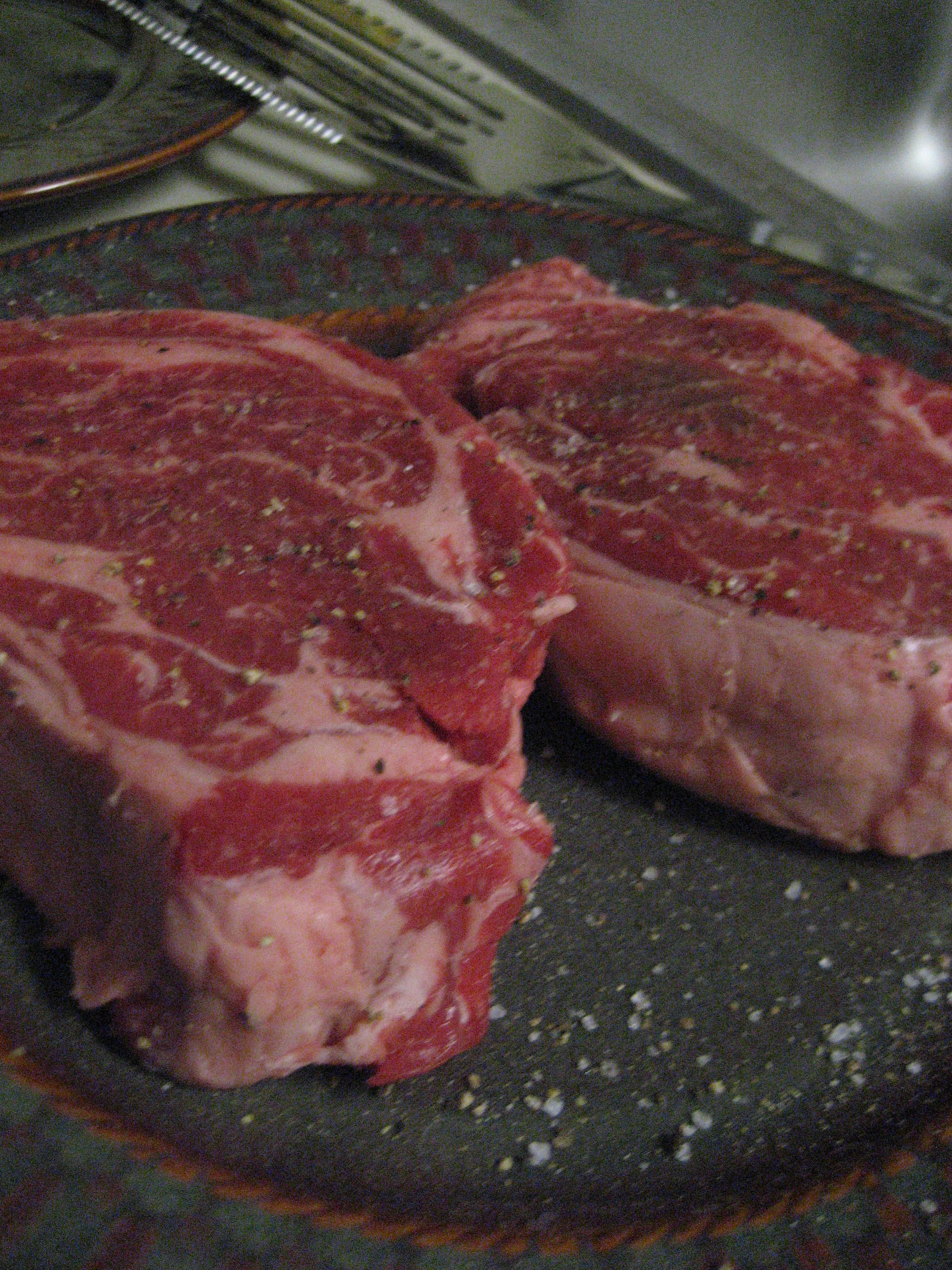 Chuckeye steak